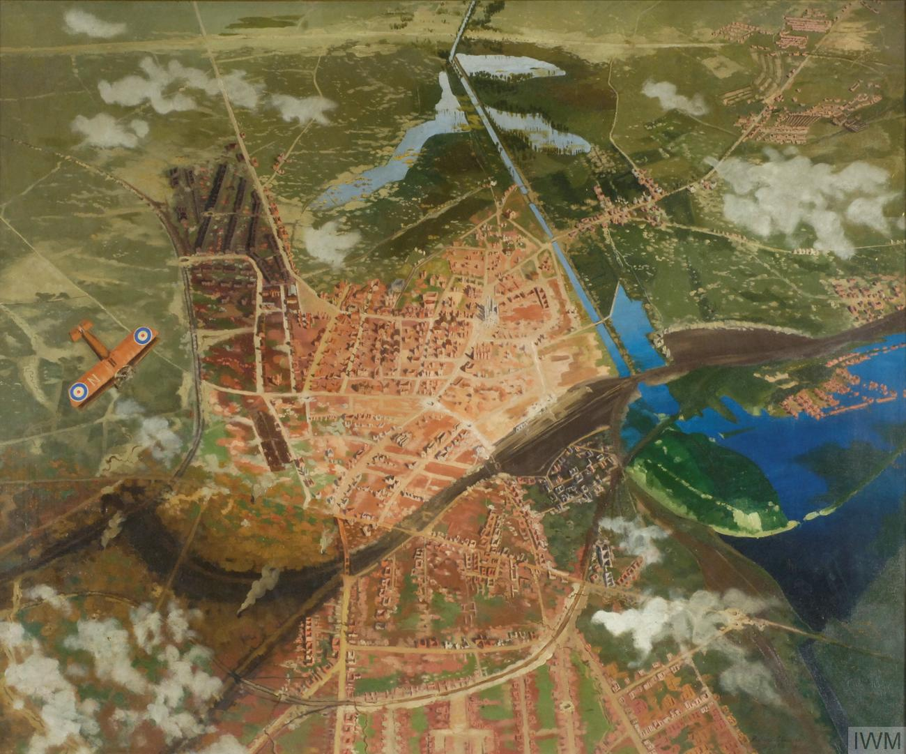 An Impression of Lens, France, Seen from an Aeroplane- the Anglo-german Front Line, 1918 image: An aerial view of the French city of Lens from a British plane. A British biplane is in flight on the left and there are traces of wispy cloud in the sky.